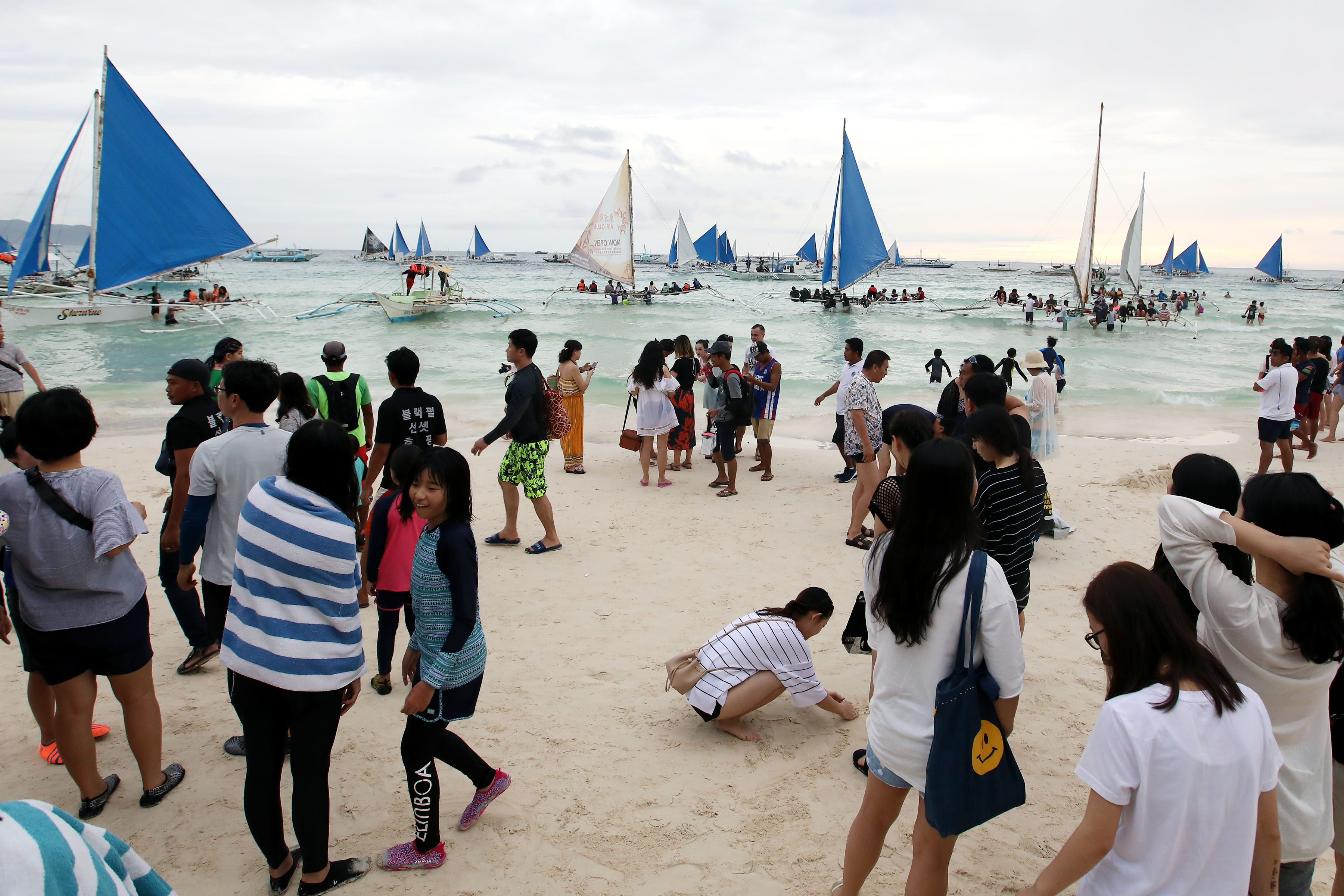 Aside from the white sand beaches and blue waters surrounding Boracay which attract local and foreign tourists, the famous island in the province of Aklan also offers island hopping costing from P2,000 to P6,000. (PNA photo by Joey Razon)